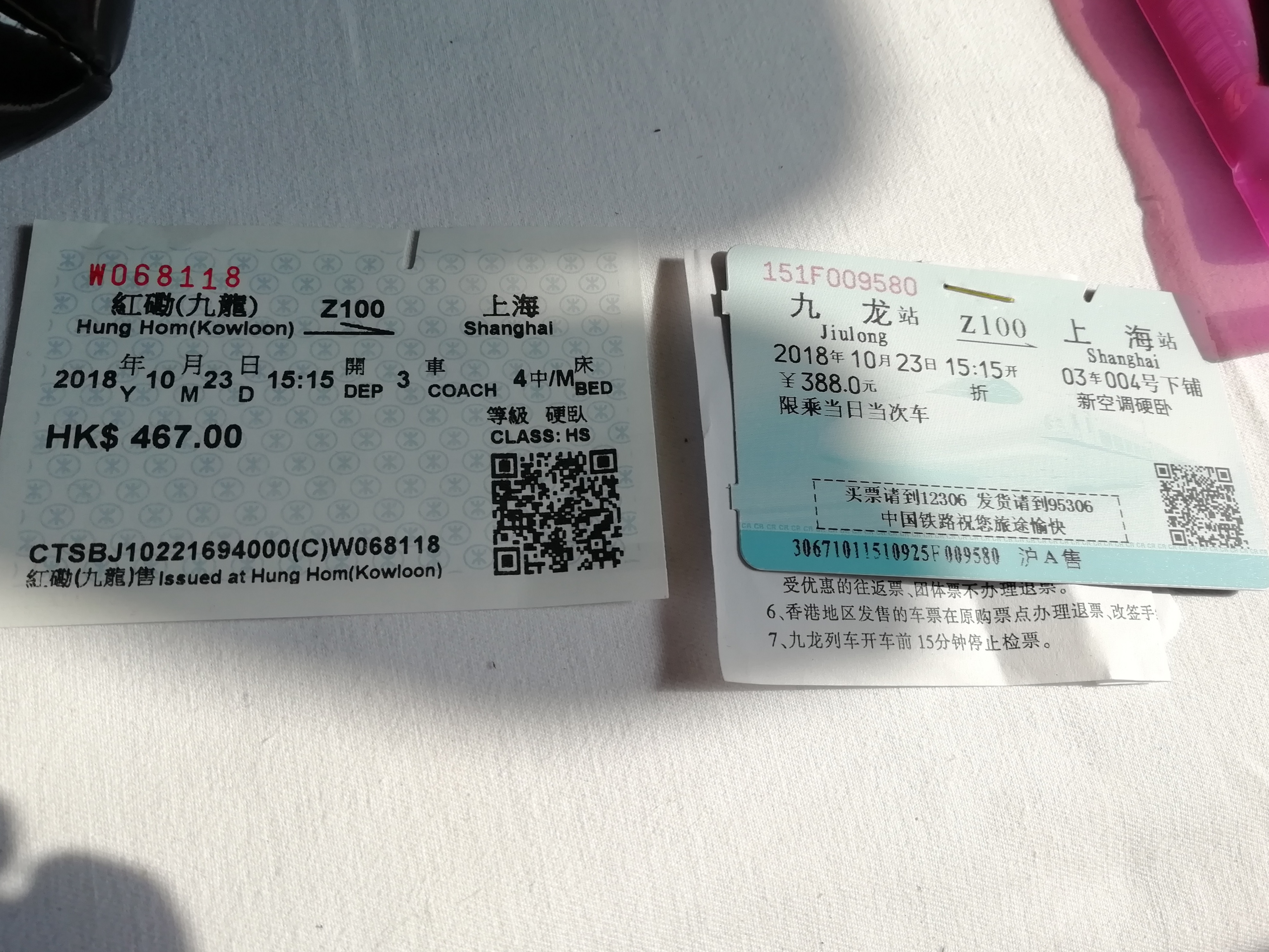 Two Z100 tickets. One is sold in Hong Kong, and the other one is sold in Shanghai.